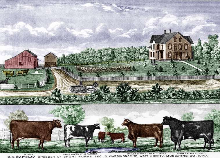 Typical Iowa Farm, Muscatine County, Iowa.